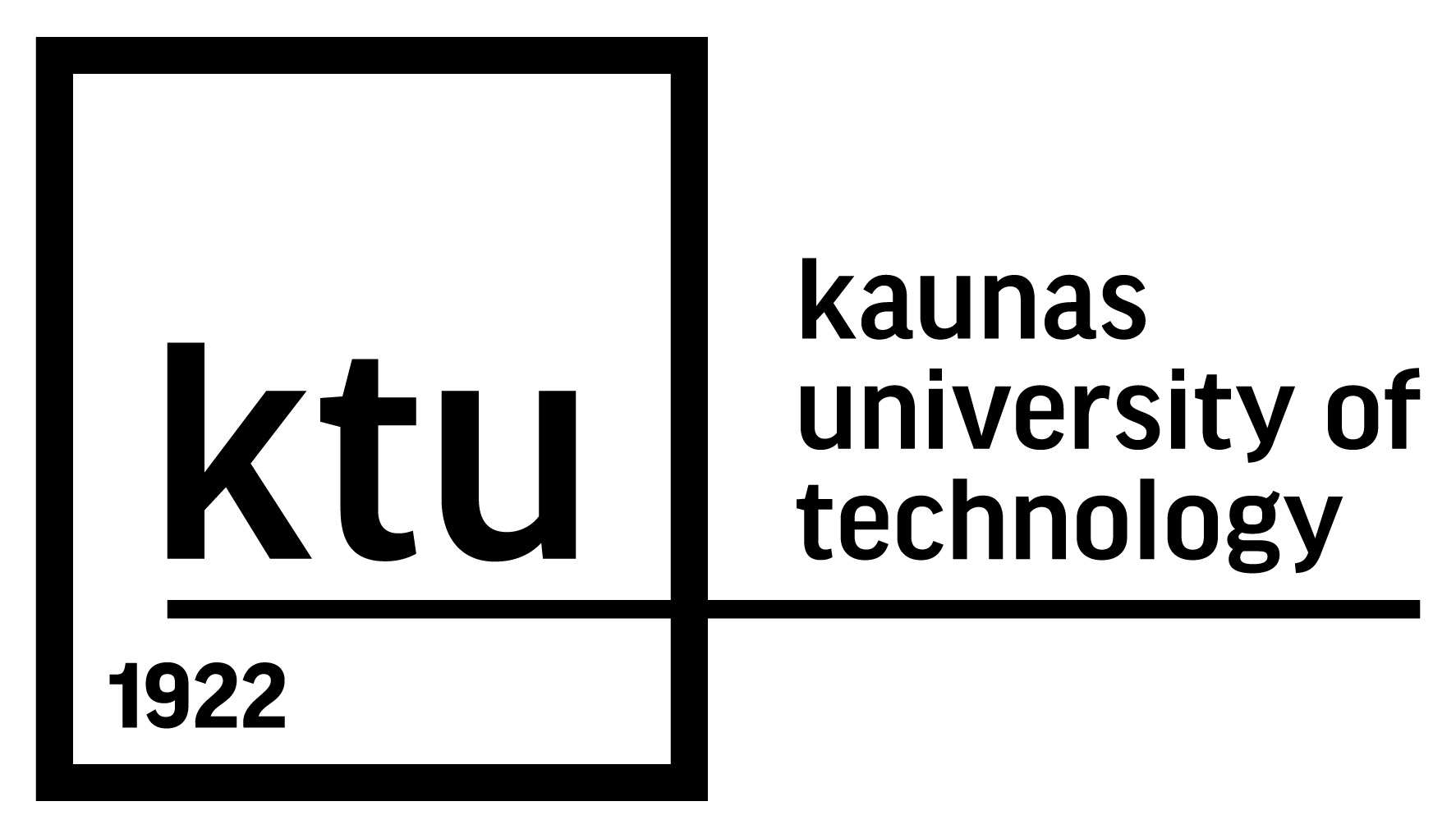 Kaunas University of Technology logo